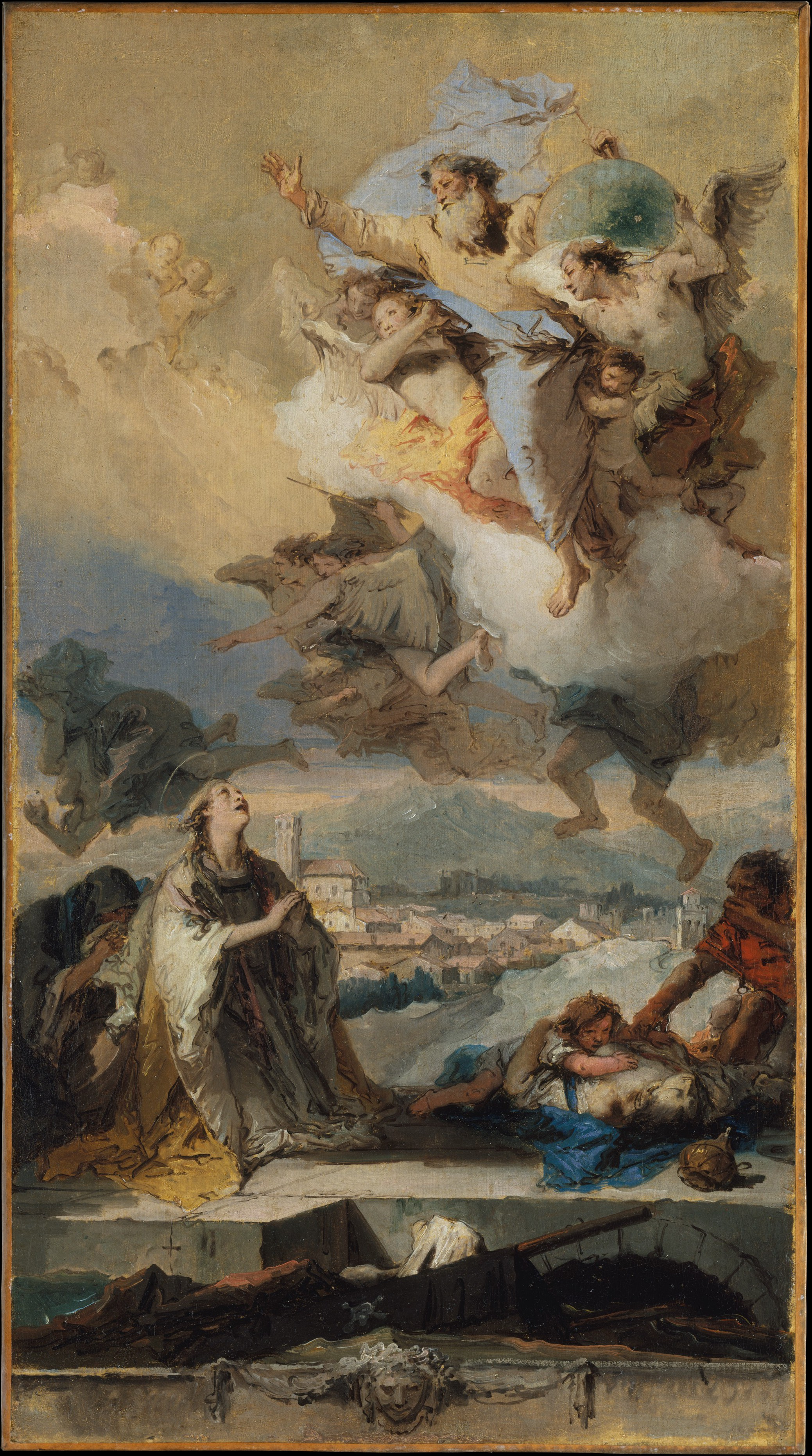 Painting, sketch; Paintings